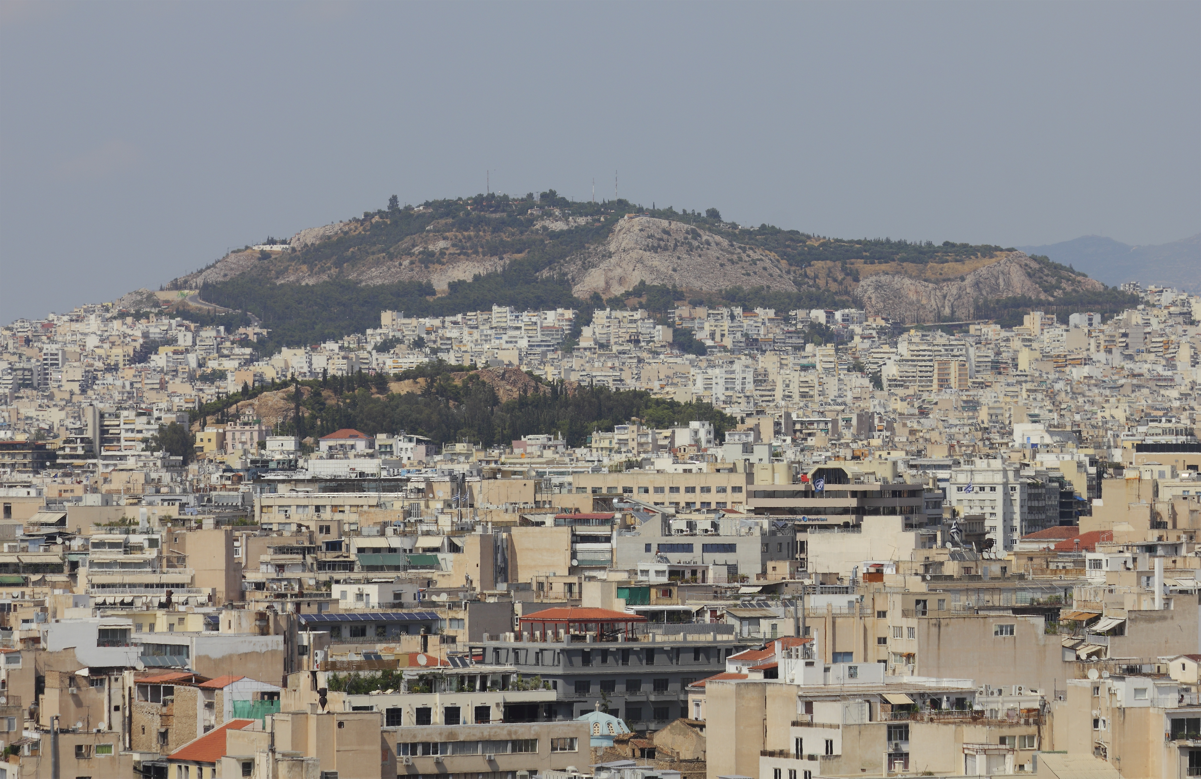 View of Athens (Attica, Greece) from Acropolis hill